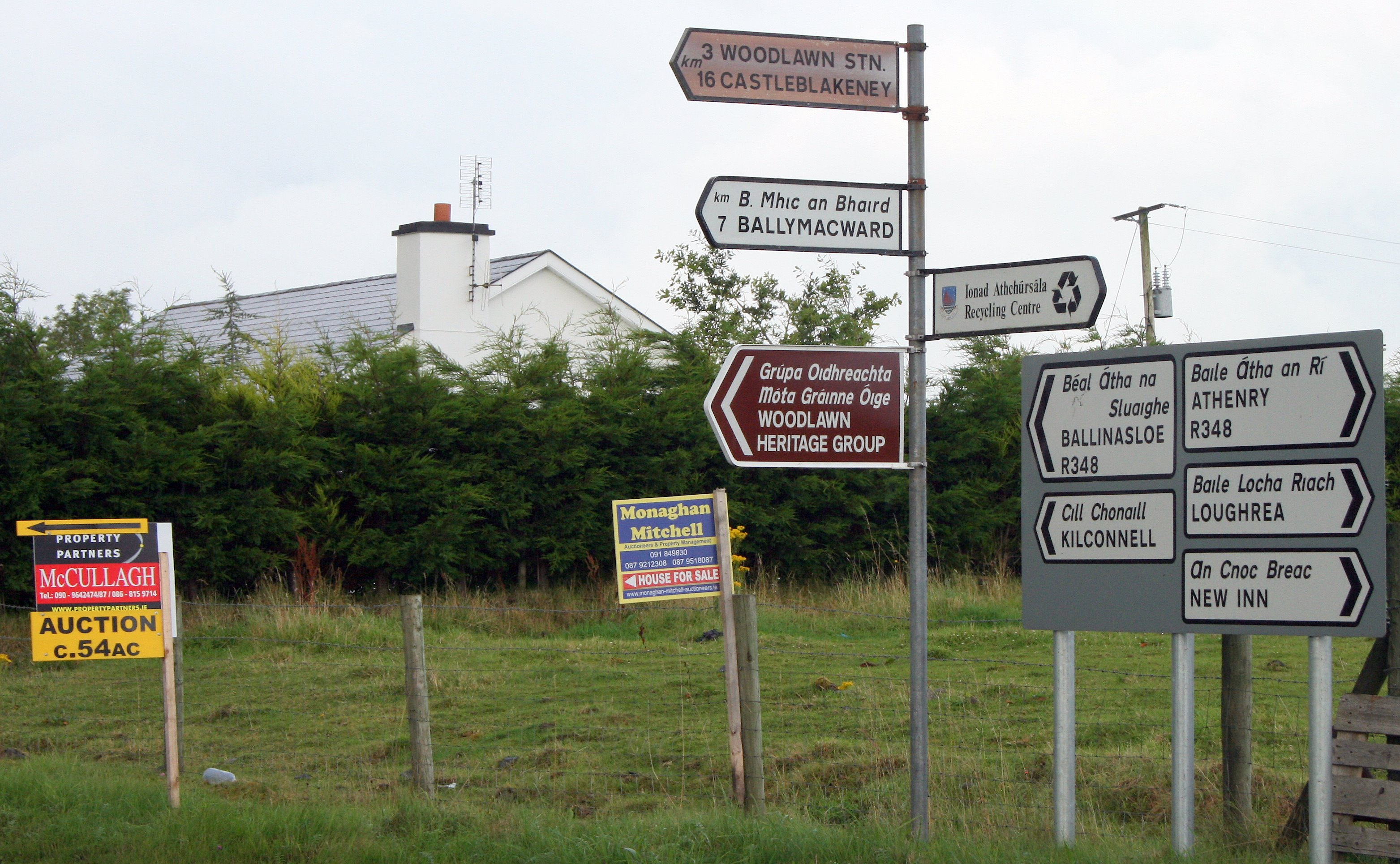 R348 at the turn-off for Woodlawn Station, County Galway, Ireland.